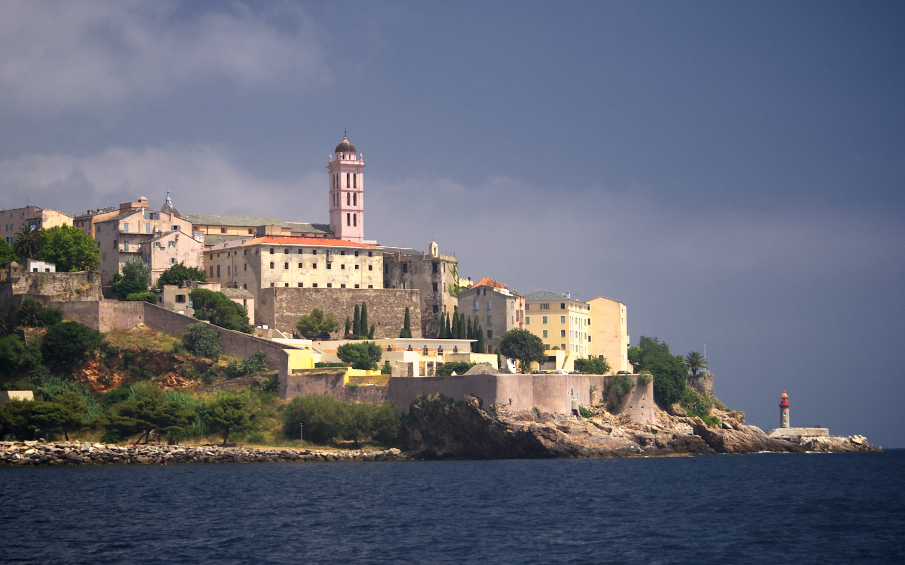 The citadel of Bastia seen from the south